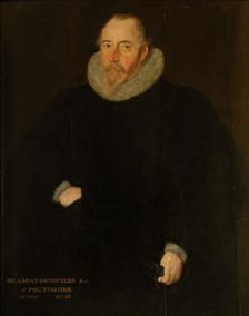 Sir Amyas Bampfylde (d.1625) of Poltimore & North Molton, Devon. Painted by Robert Peake the Elder (c.1551-1619), oil on panel. Inscribed: "Sir Amias Baumfylde Knt. of Poltimore, ob. 1625 aet.65". Collection of National Trust, displayed at Antony House, Cornwall. Ref: NT 352375. Provenance: descent by inheritance from Mary Bampfylde (d. before 1763), Lady Carew, daughter of Sir Coplestone Bampfylde, 3rd Baronet (died 1727), and wife of Sir Coventry Carew, 6th Baronet (ca. 1716-1748) of Antony House, Cornwall.